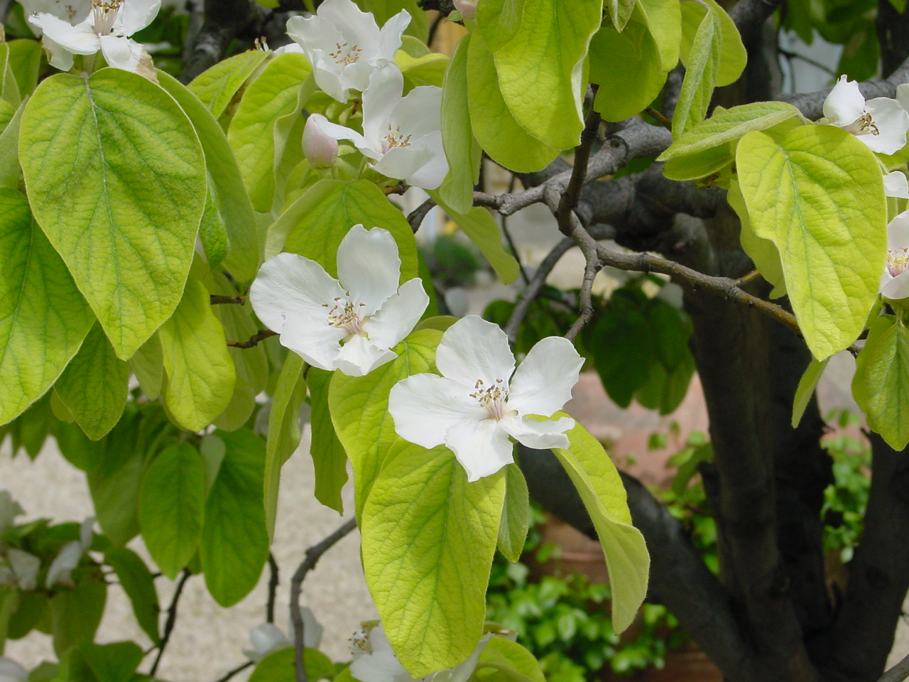 Flowers of Cydonia oblonga (Giardino dei Semplici, Florence, Italy)